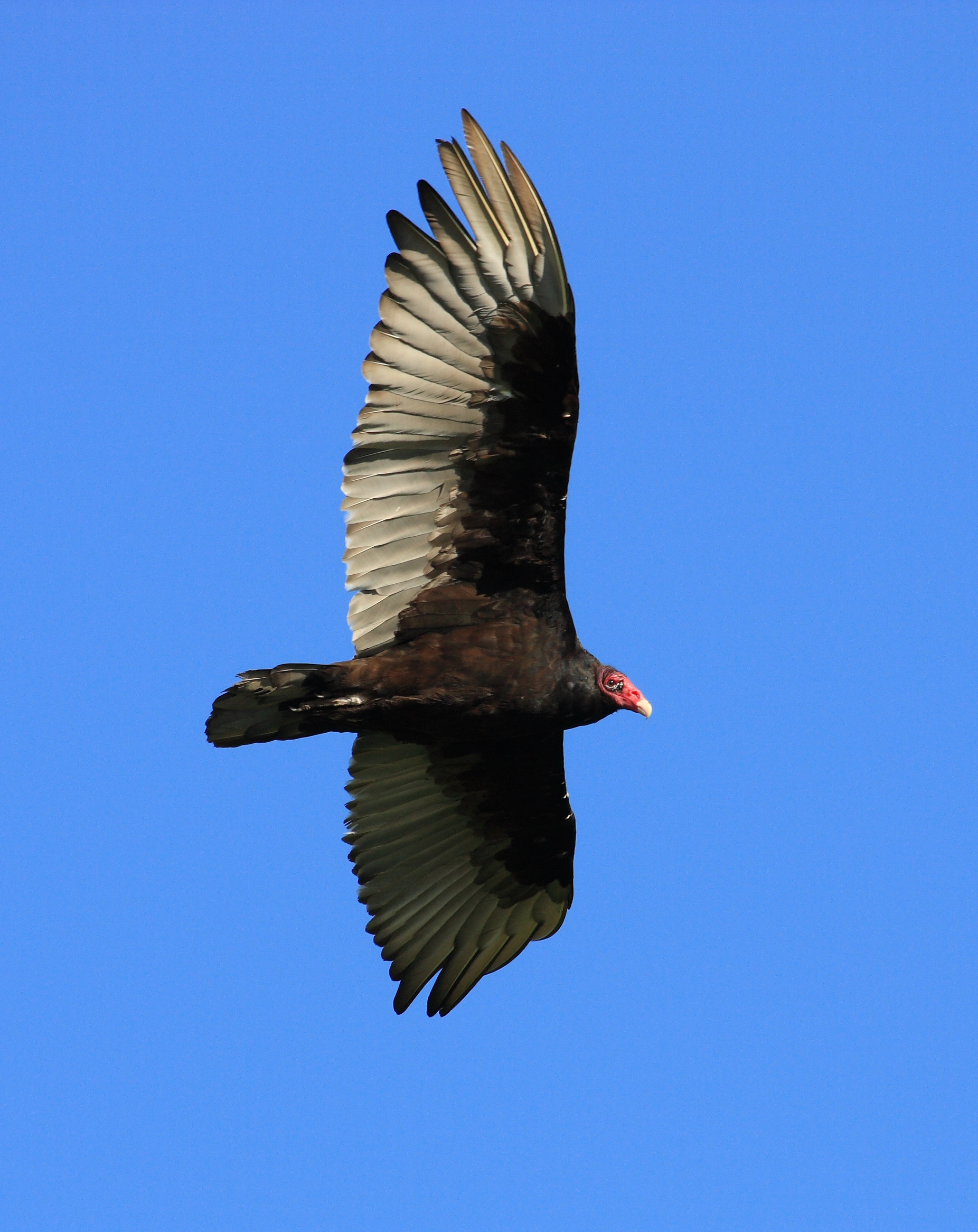 Turkey Vulture, Saint-André-Avellin, Quebec, Canada